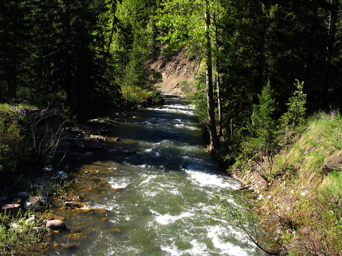 Fording River near Sparwood, British Columbia. The Fording River is a tributary of the Elk River in the Canadian province of British Columbia. It is part of the Columbia River basin, as the Elk River is a tributary of the Kootenay River, which is a tributary of the Columbia River. The Fording River originates in the Rocky Mountains near Fording River Pass on the Continental Divide. It flows south, collecting numerous tributaries before joining the Elk River some distance north of Sparwood.